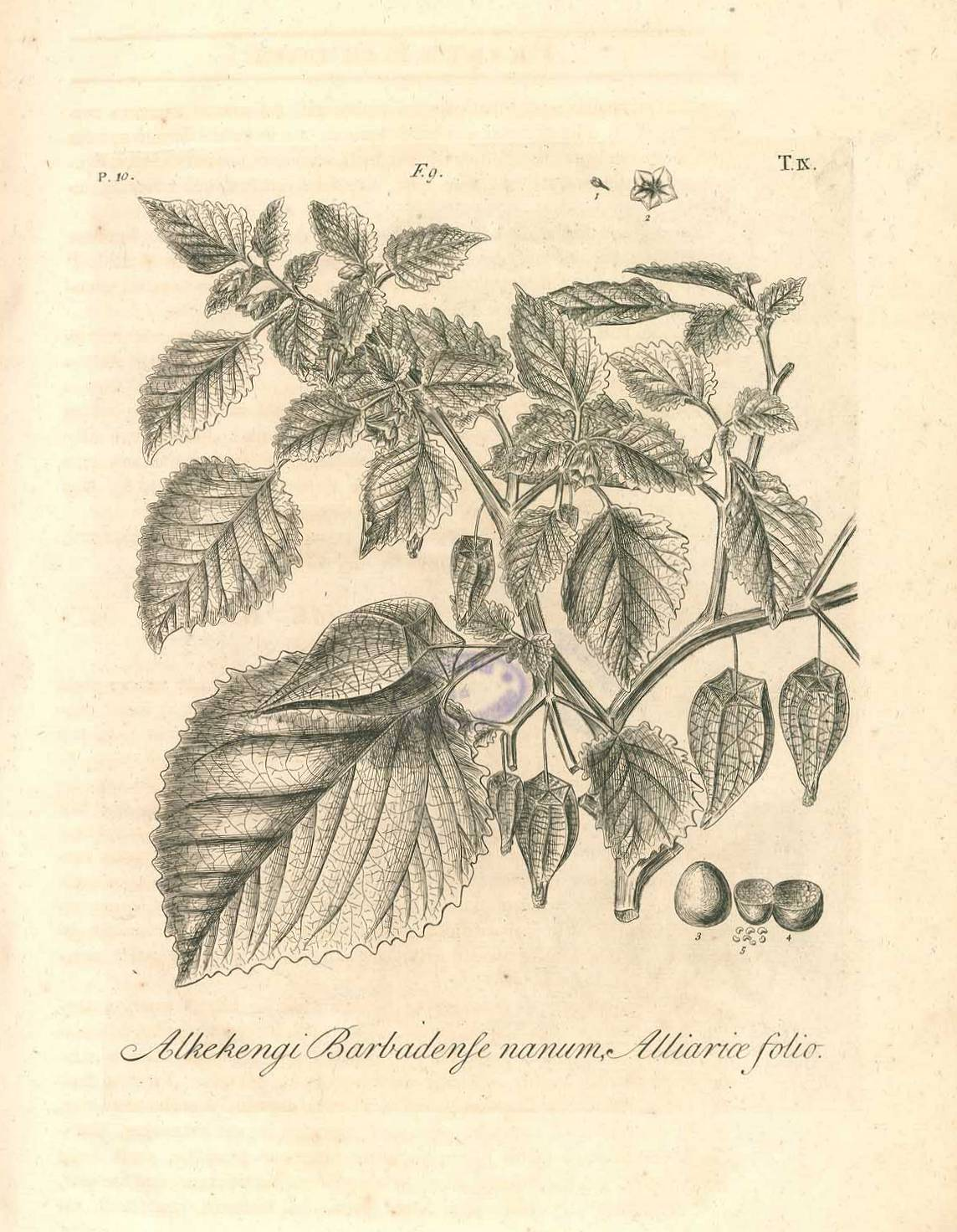 Dillenius, J.J. (1732), Hortus Elthamensis plate 9, depicting Alkekengi Barbadense nanum, Alliariae folio, now know as Physalis pubescens L.